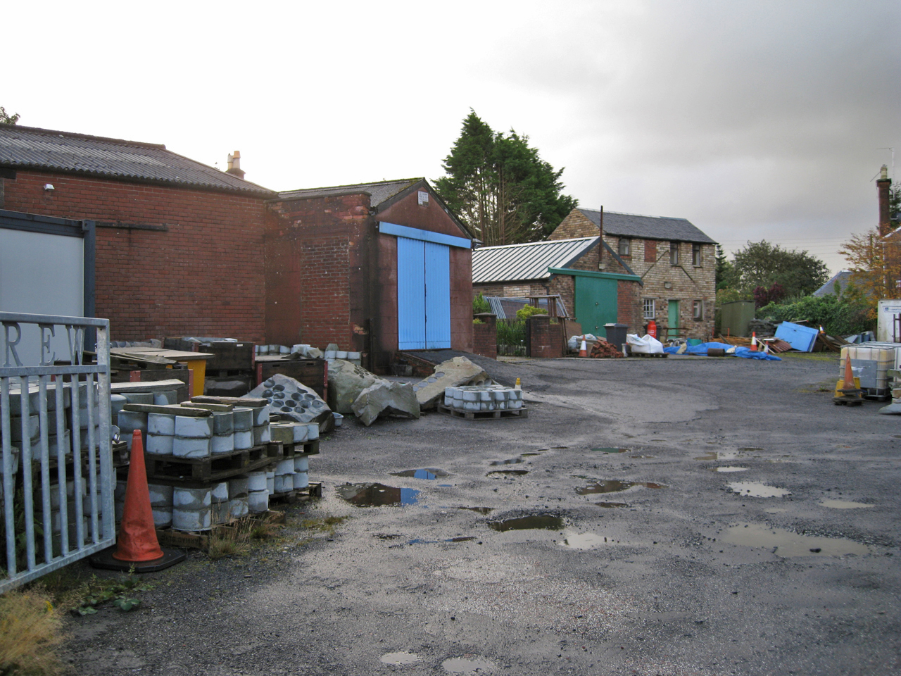 Kays of Scotland curling stone works, by Richard Dorrell, Saturday, 29 September, 2012